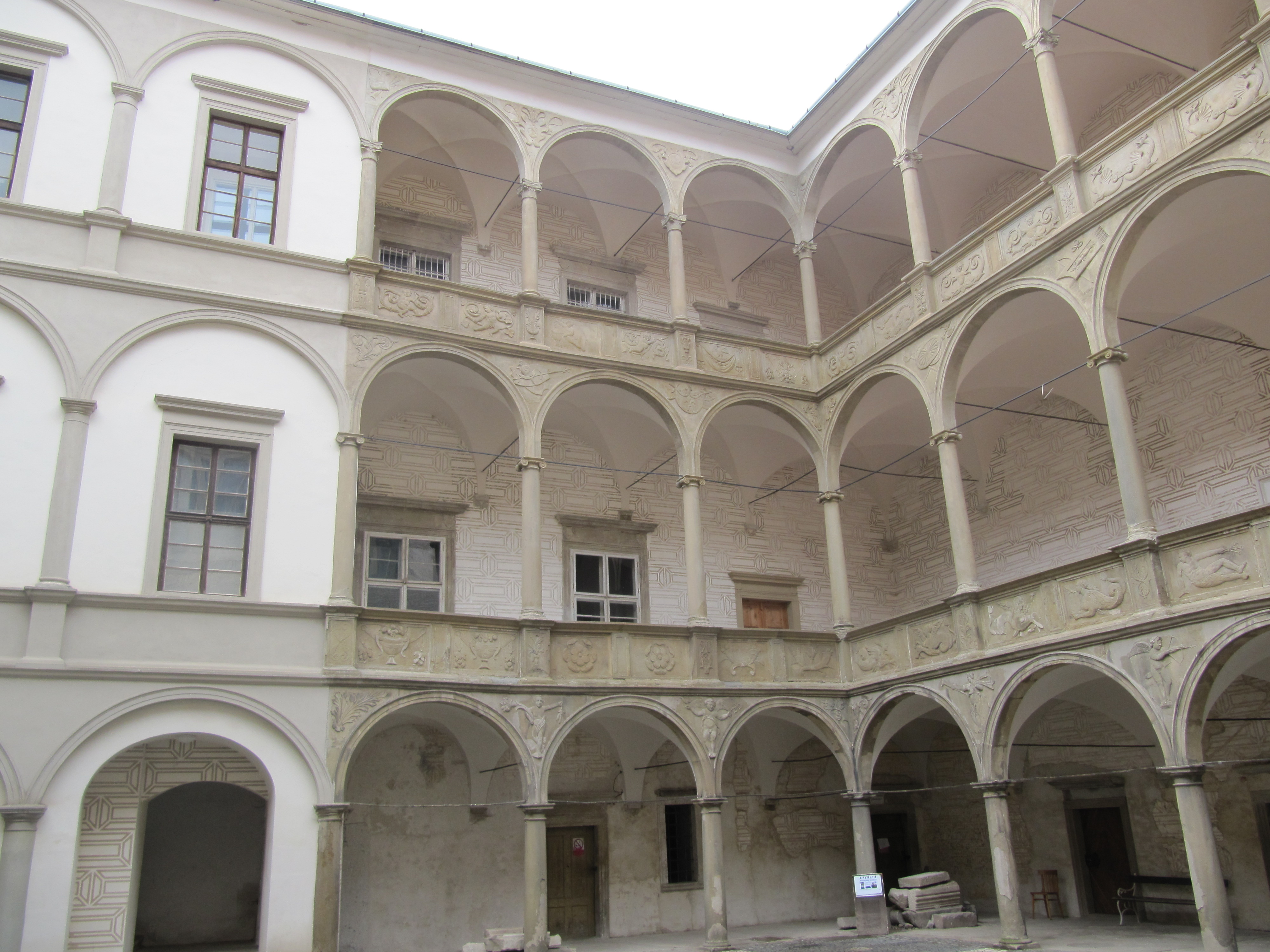 Rosice in Brno-Country District, Czech Republic.Courtyard of castle.